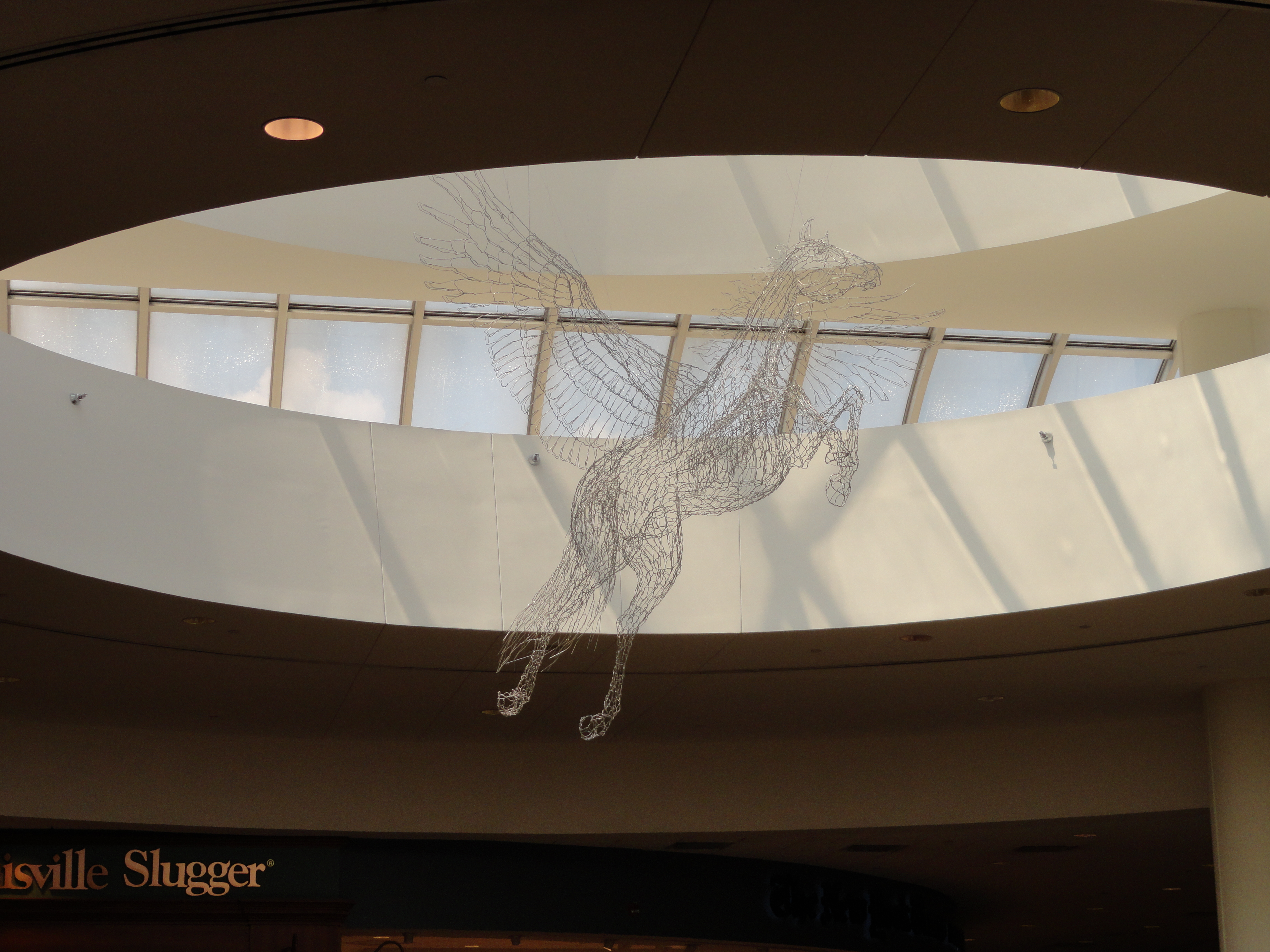 A depiction of Pegasus at Louisville International Airport